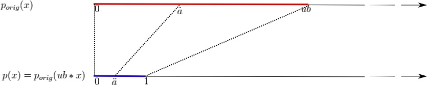 The general algorithm of the VCA method